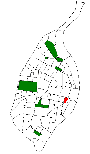 Map of St. Louis Neighborhood #33 (Peabody Darst Webbe)